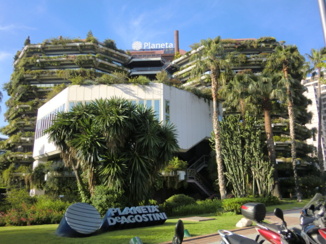 Planeta DeAgostini headquarters. Avinguda Diagonal, nº 662-664 –08034- Barcelona, Catalonia, Spain.